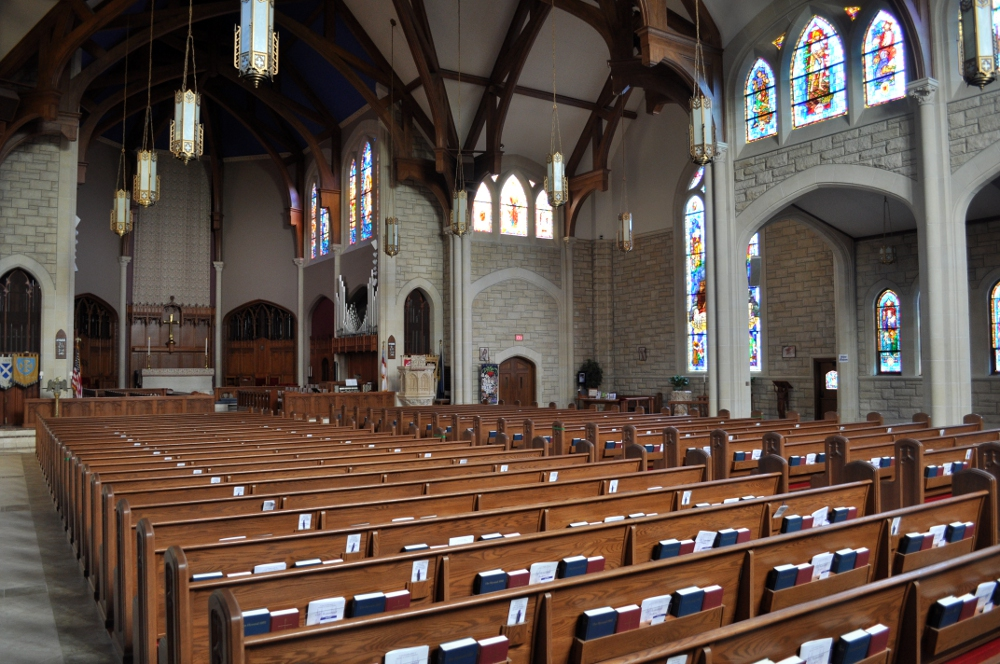 Interior view of the nave of Grace Episcopal Cathedral (Topeka, KS), looking towards the sanctuary.